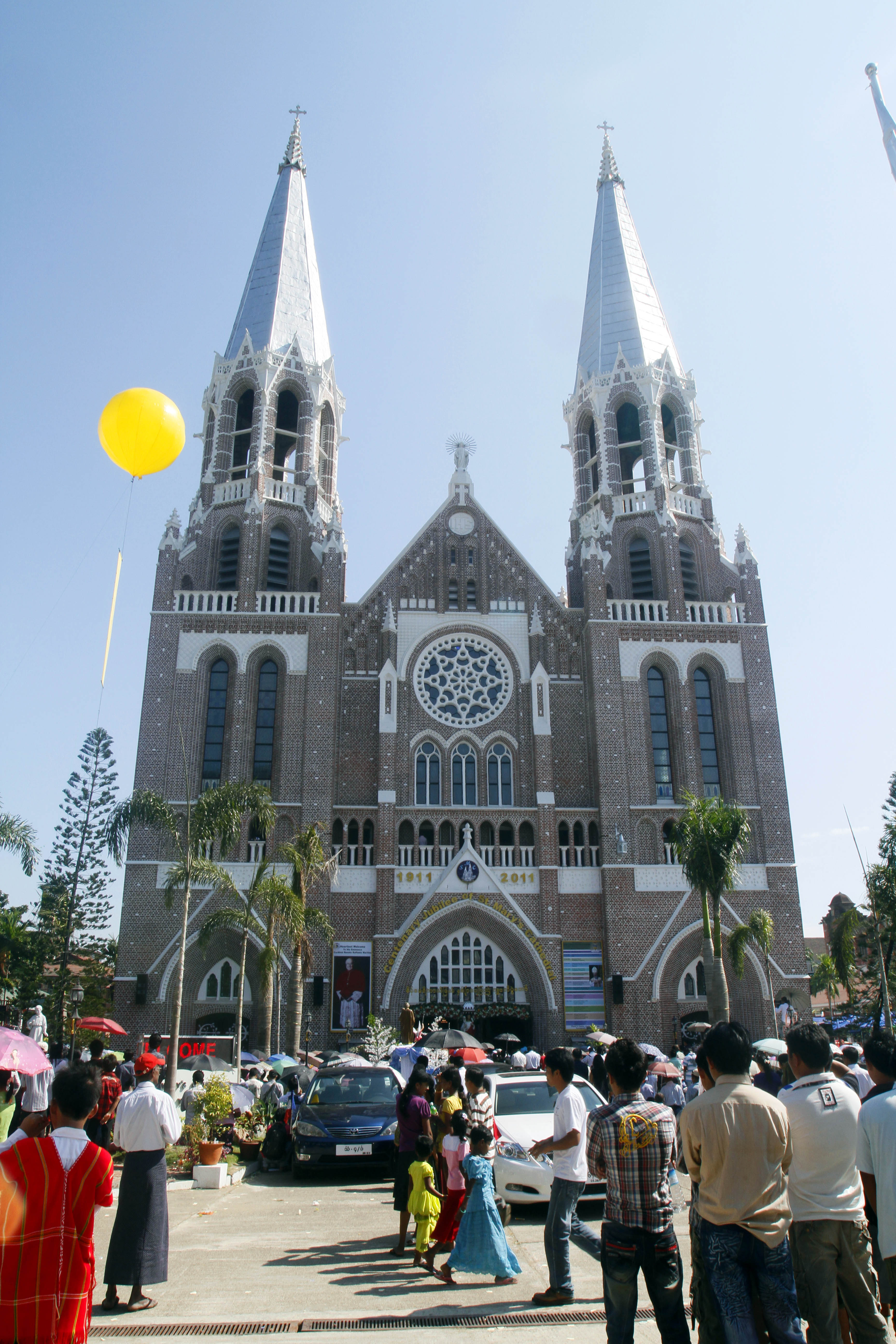 Yangon Saint Mary Cathedral see on 100th anniversary of Saint Mary Cathedral founding ceremony on 8 November 2011.